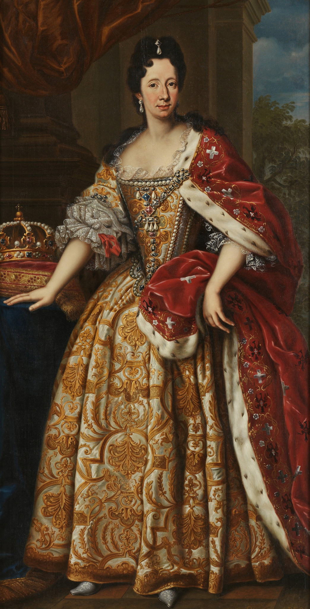 Portrait of Anne Marie d'Orléans (1669-1728) while Queen of Sardinia wearing the robes of Savoy and the showing the Sardinian crown